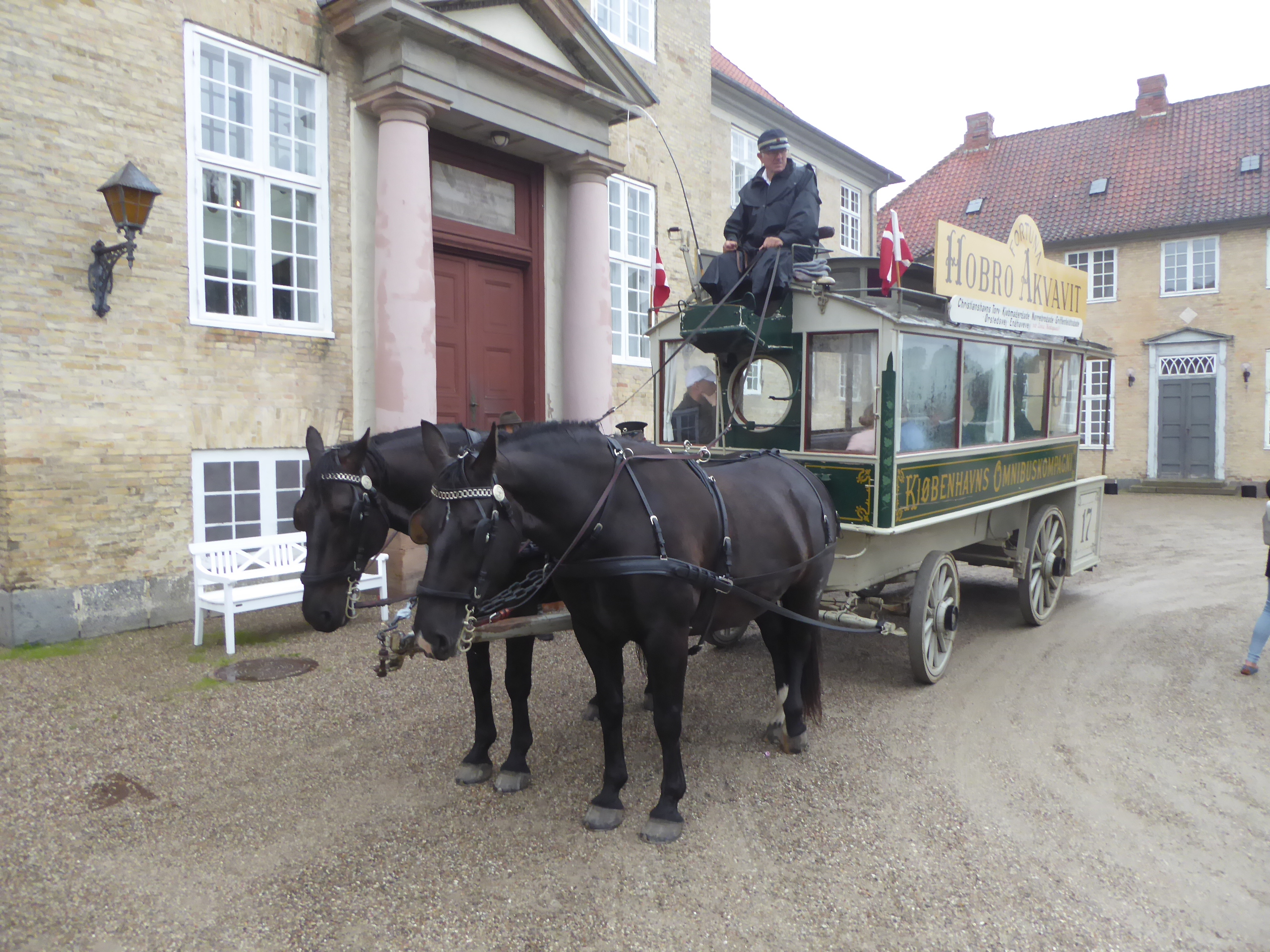 The horse-drawn bus KO 17 from 1897 from Copenhagen at the main building of the estate Skjoldenæsholm. The bus belongs to Sporvejsmuseet Skjoldenæsholm which provides trips with it to the estate and back on certain days.